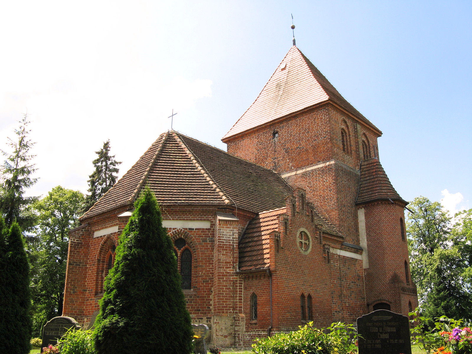 Church in Hohen Wangelin, disctrict Mecklenburgische Seenplatte, Mecklenburg-Vorpommern, Germany